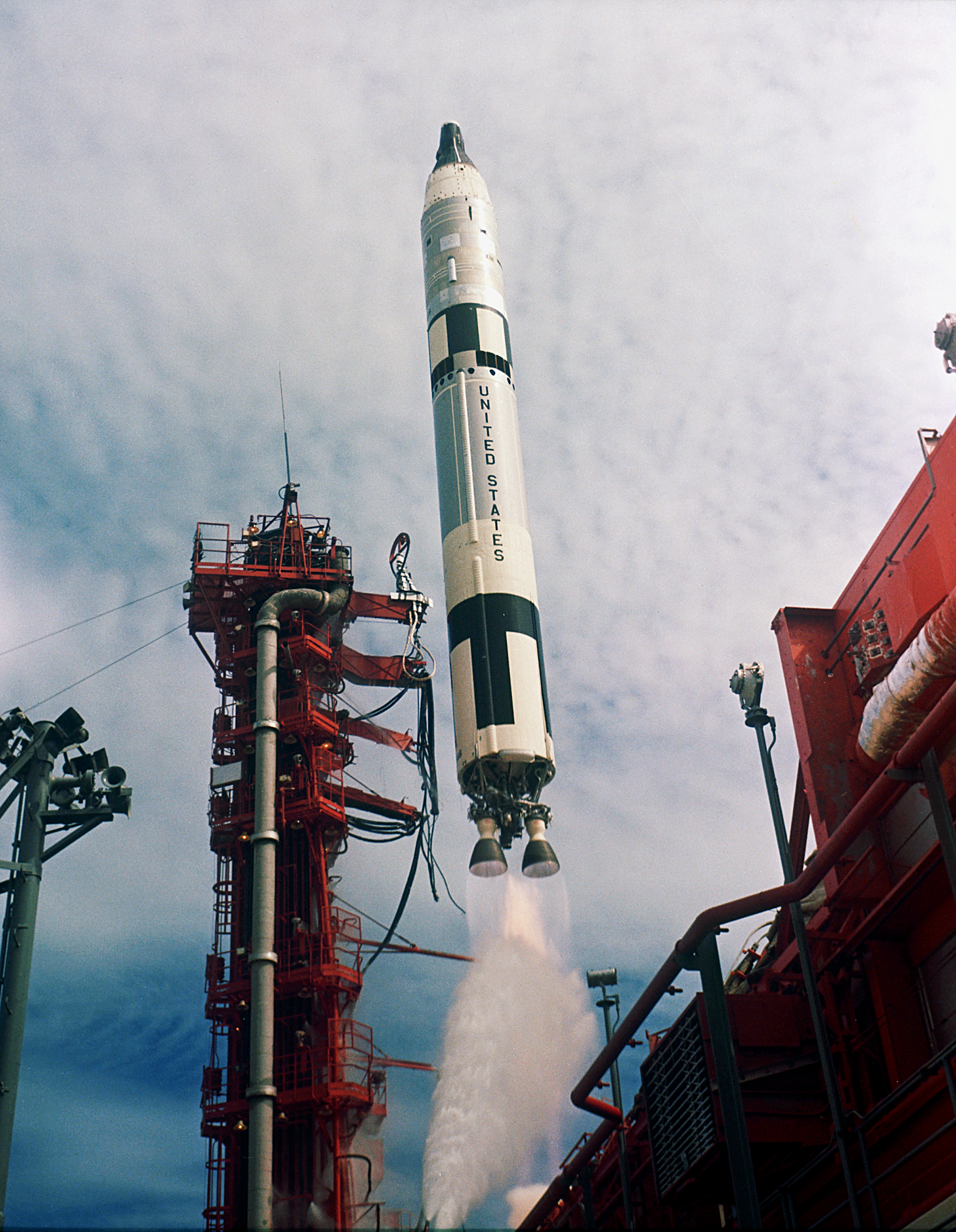 Lift-off of Gemini-Titan 11 (GT-11) on Complex 19. The Gemini 11 mission included a rendezvous with an Agena target vehicle.